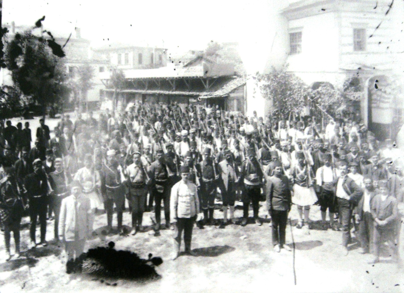 Kostur garrison headed by Myftari Bey (first from right in front row), on the arrival in Bitola during the Young Turk revolution. (Bitola, 1908) (Damaged glass plate) This media file is produced by Wikipedian in Residence in Category:Wikipedian in Residence at DARM in 2016.